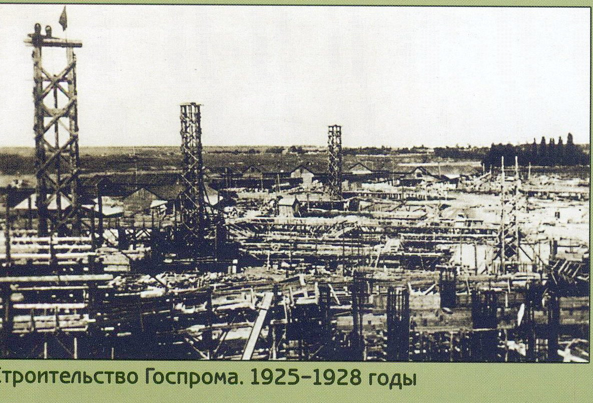 Gosprom to Build. 1926. Photo taken in Kharkov.